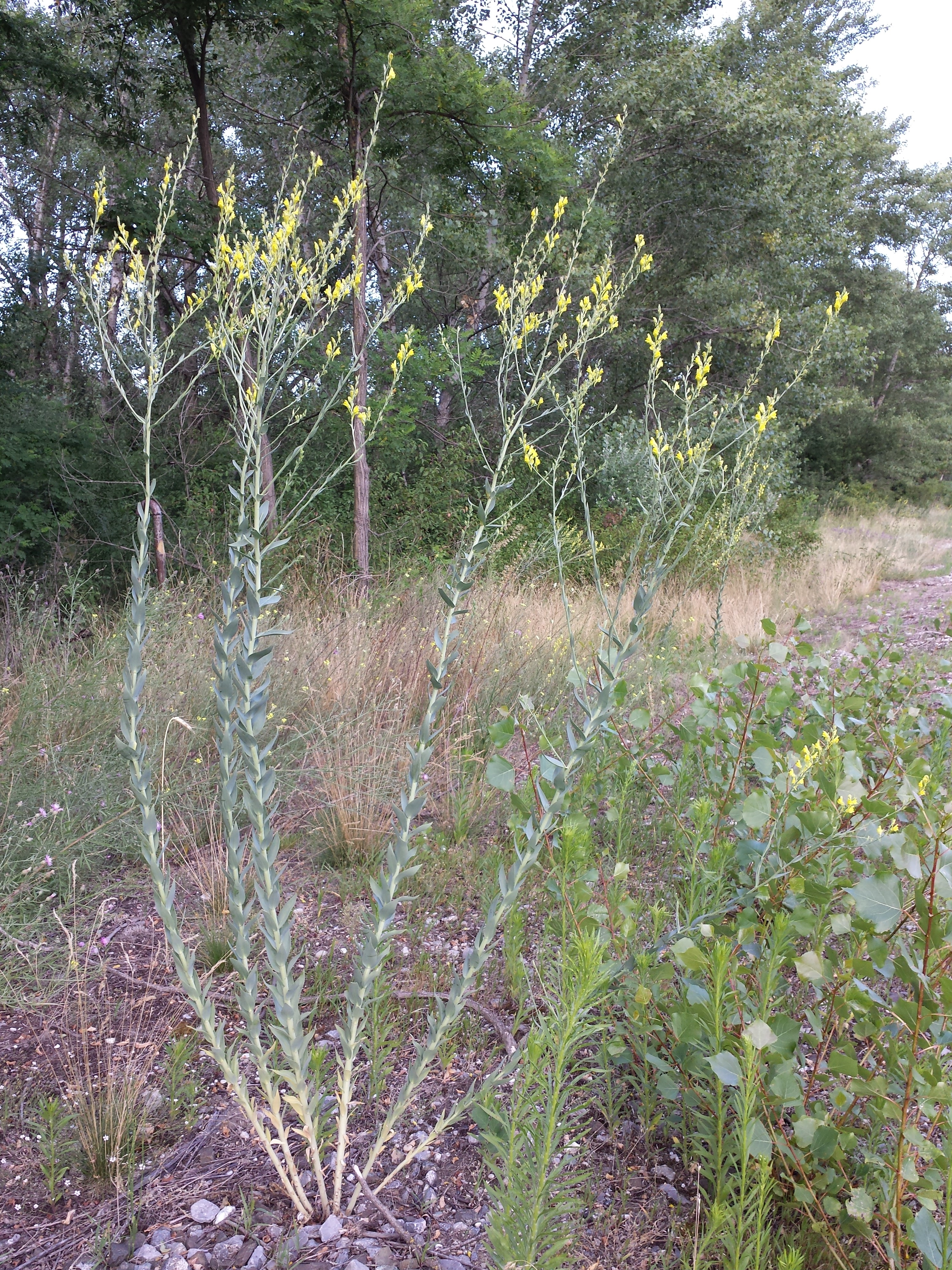 Habitus Taxon: Linaria genistifolia (sensu Fischer et al. EfÖLS 2008) Location: old marshalling yard Breitenlee, Vienna-Donaustadt - ca. 160 m a.s.l. Habitat: ballast